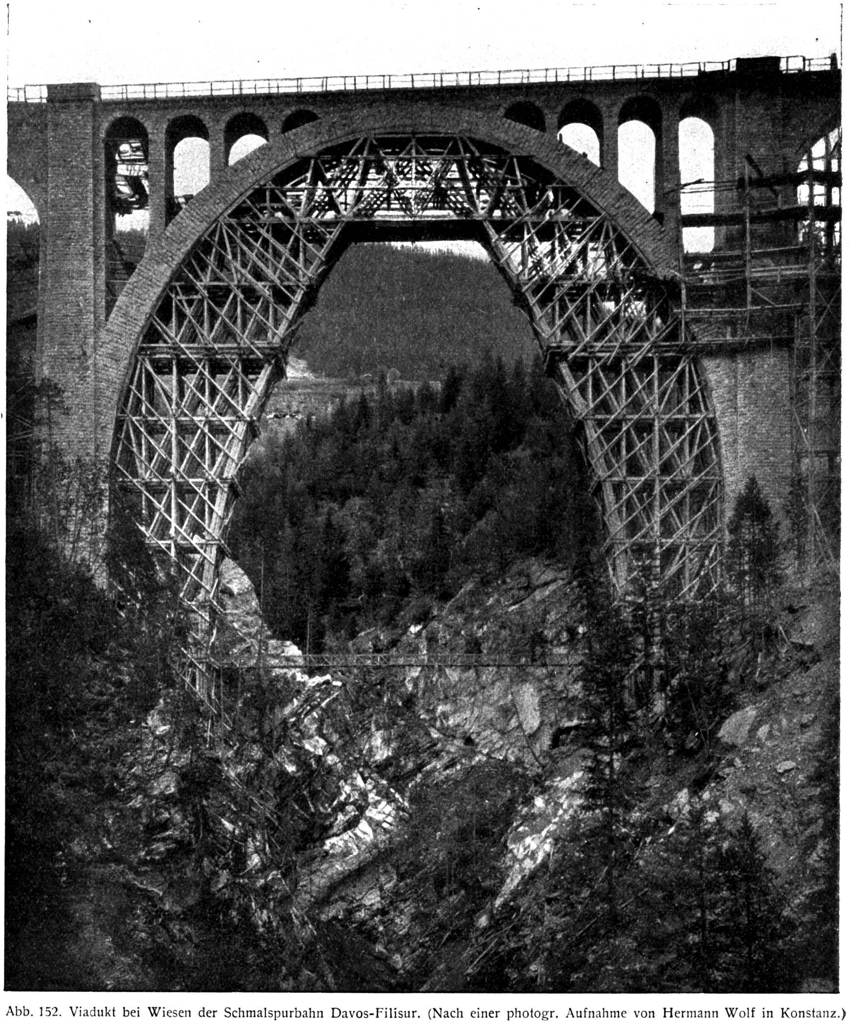 Building of a Viaduct at the Davos Platz–Filisur rail